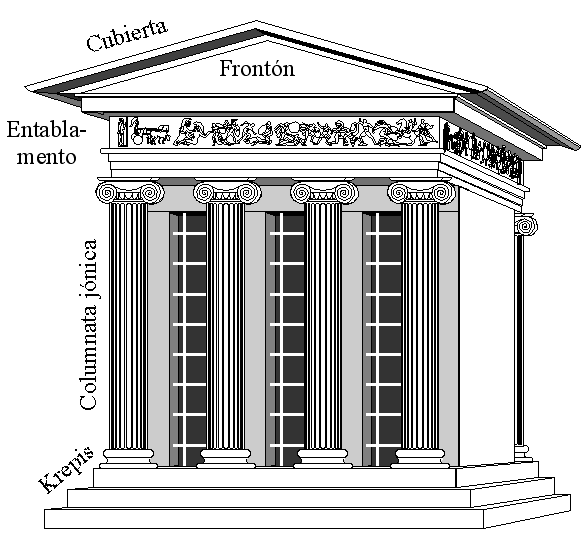 Reconstruction of the Temple of Athena Nike: Nike means Victory in Greek, and Athena was worshiped in this form, as goddess of victory, on the Acropolis of Athens. Her temple, built around 427 BC, was the earliest Ionic temple on the Acropolis sanctuary